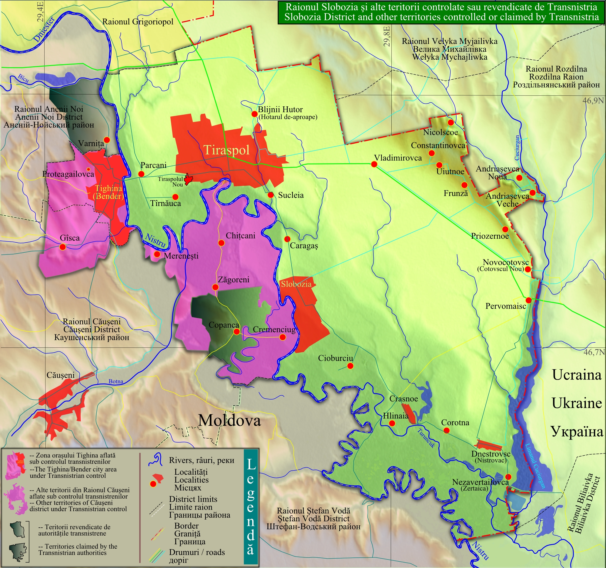 Slobozia District and other territories controlled or claimed by Transnistria